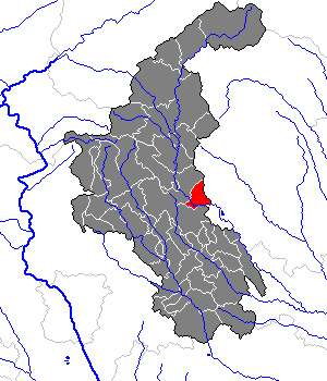 This map shows the area of the Gemeinde (municipality) Floing in the Bezirk (district) Weiz, Styria, Austria.